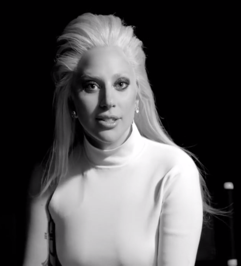 Lady Gaga ina a shortfilm by Intel in 2016